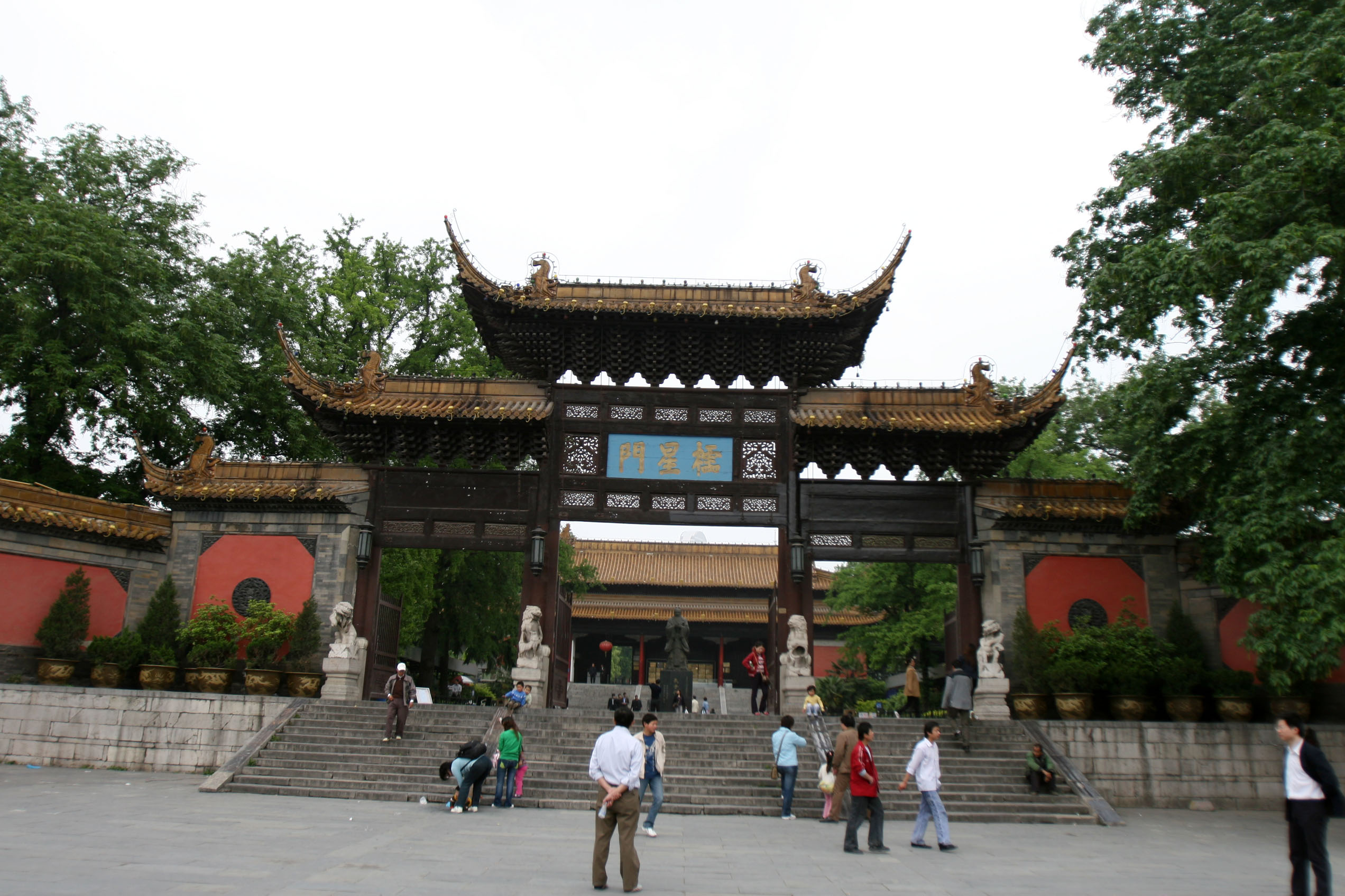 ChaoTianGong's Gate, Nanjing. Photoed by Farm